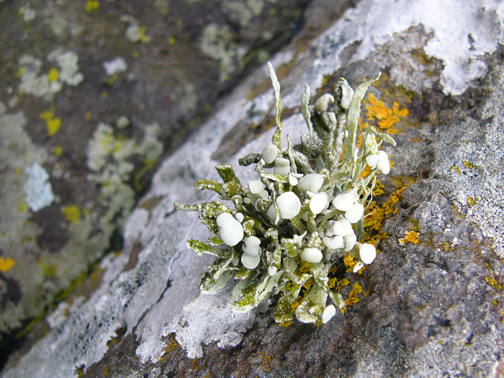 Plant on Lunga, Scotland.